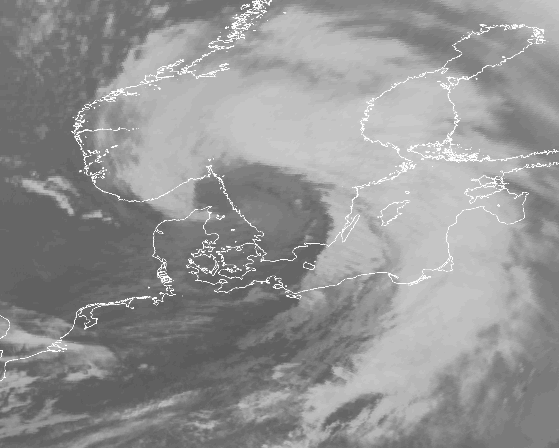 Freja storm 8 November 2015, Geos IR cloud